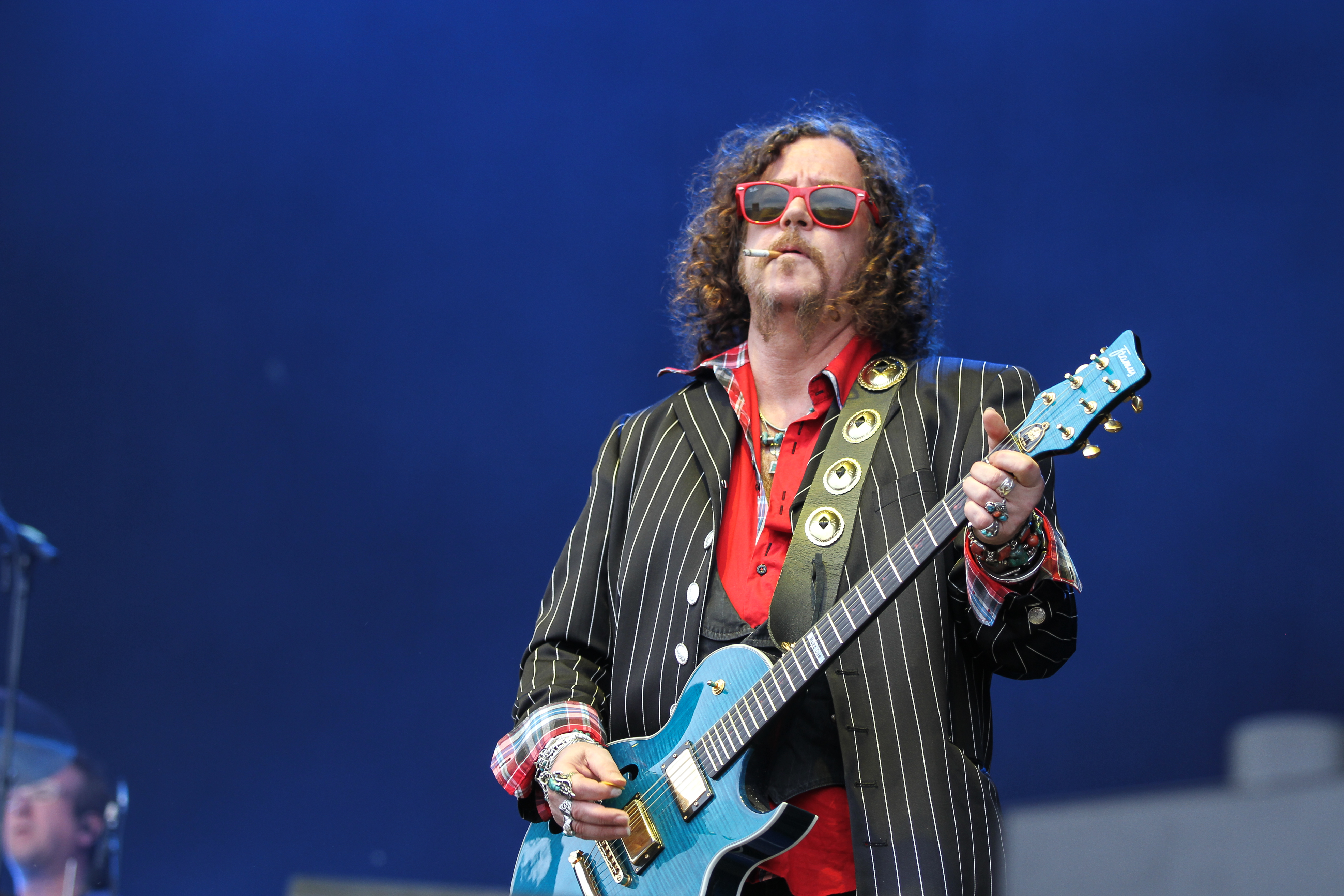 Festivalsommer This photo was created with the support of donations to Wikimedia Deutschland in the context of the CPB project "Festival Summer".